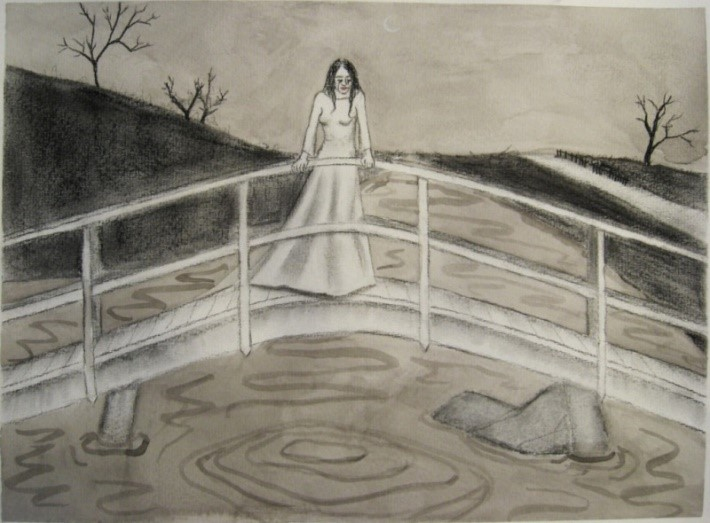 Drawing depicting La Llorona.